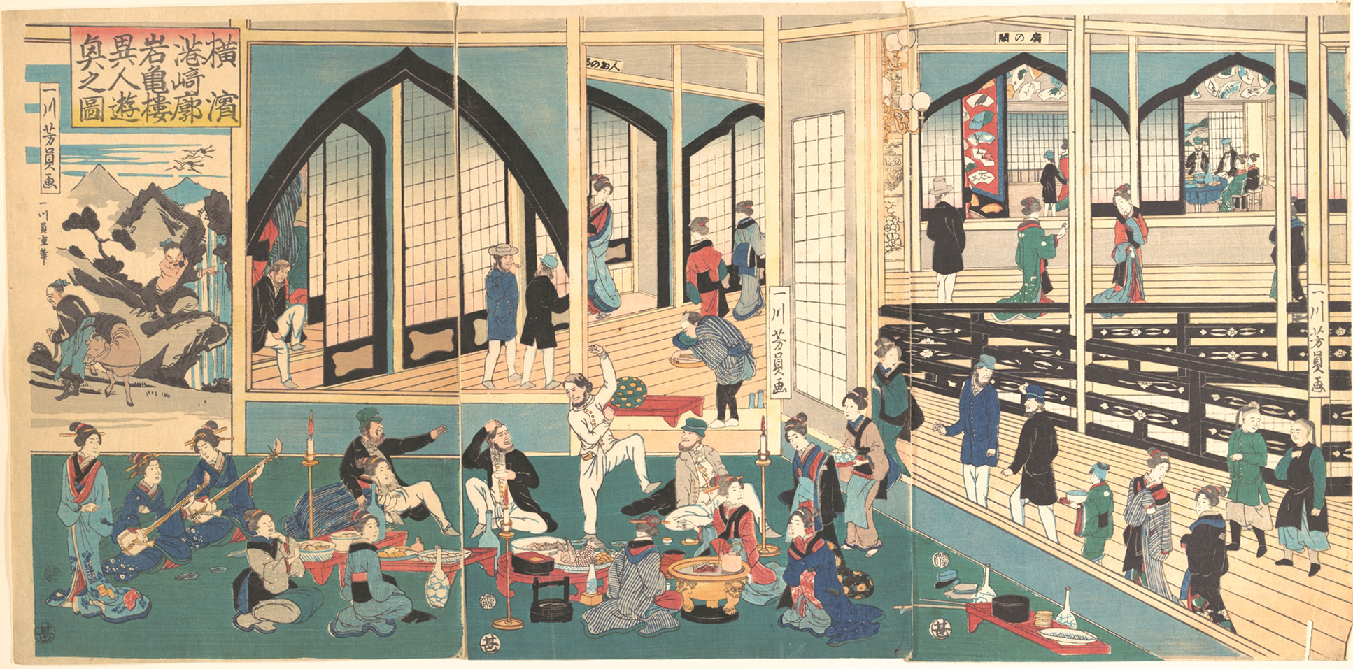 Foreigners Enjoying a Party at the Gankirō Tea House